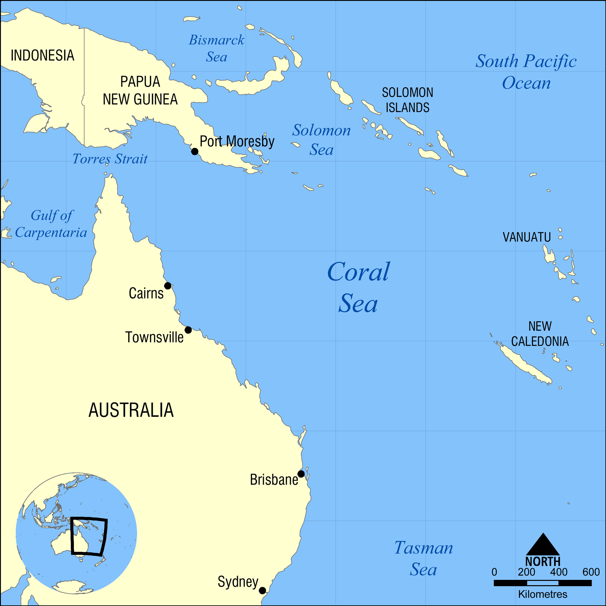 Map showing the location of the Coral Sea, bounded by Australia, Papua New Guinea, Solomon Islands, Vanuatu, and New Caledonia. Nearby bodies of water include the Tasman Sea, Solomon Sea, and South Pacific Ocean.